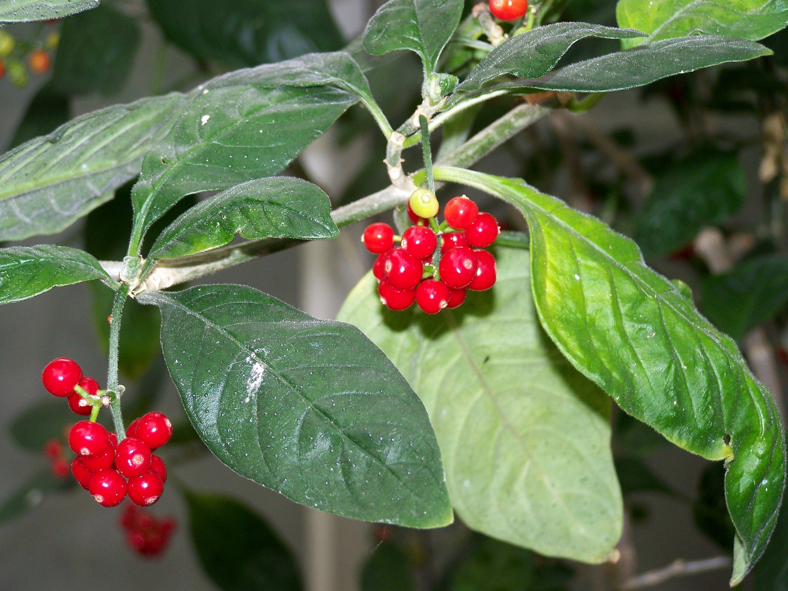 Psychotria punctata, Botanischer Garten Berlin